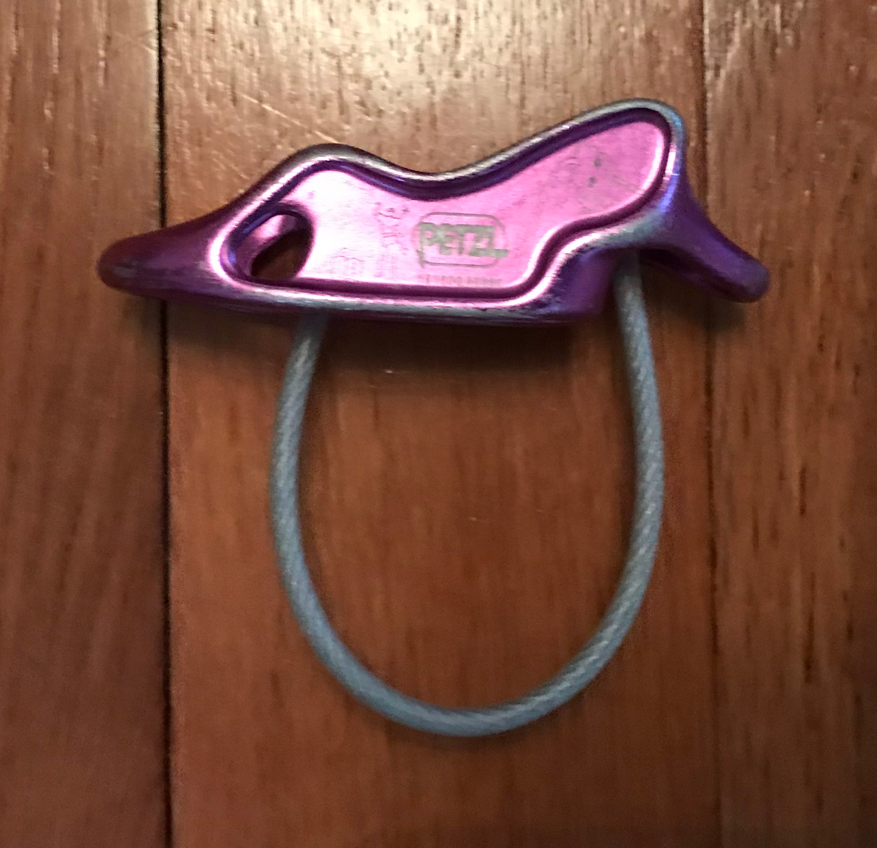 Petzl